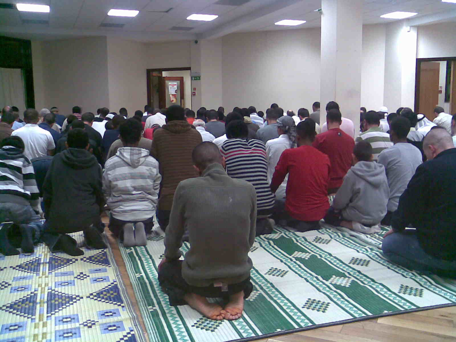 An image of people praying at Finsbury Park, in north London.